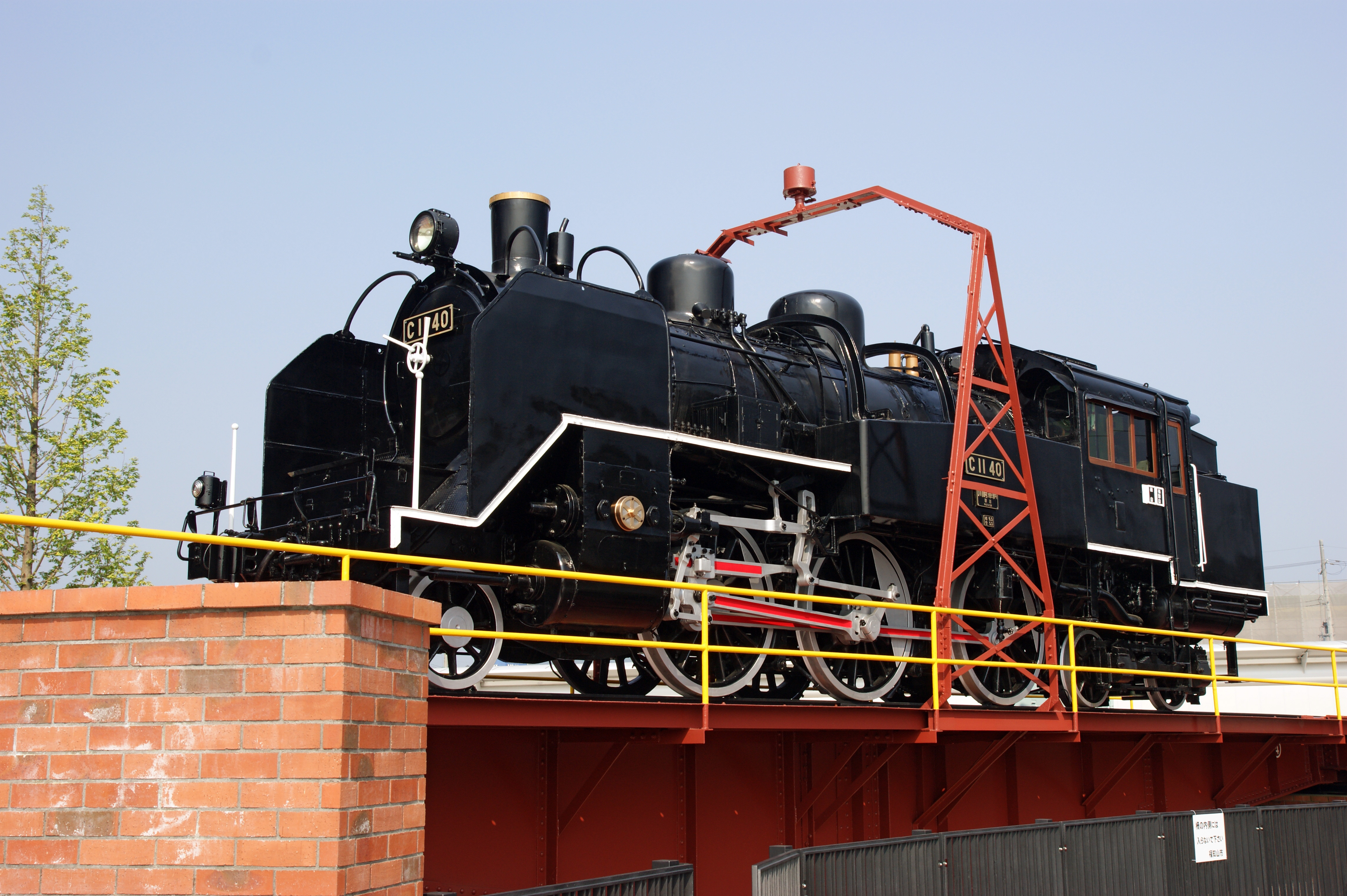 Fukuchiyama Station Minamiguchi Park (Fukuchiyama Station South exit Park) in Fukuchiyama, Kyoto prefecture, Japan